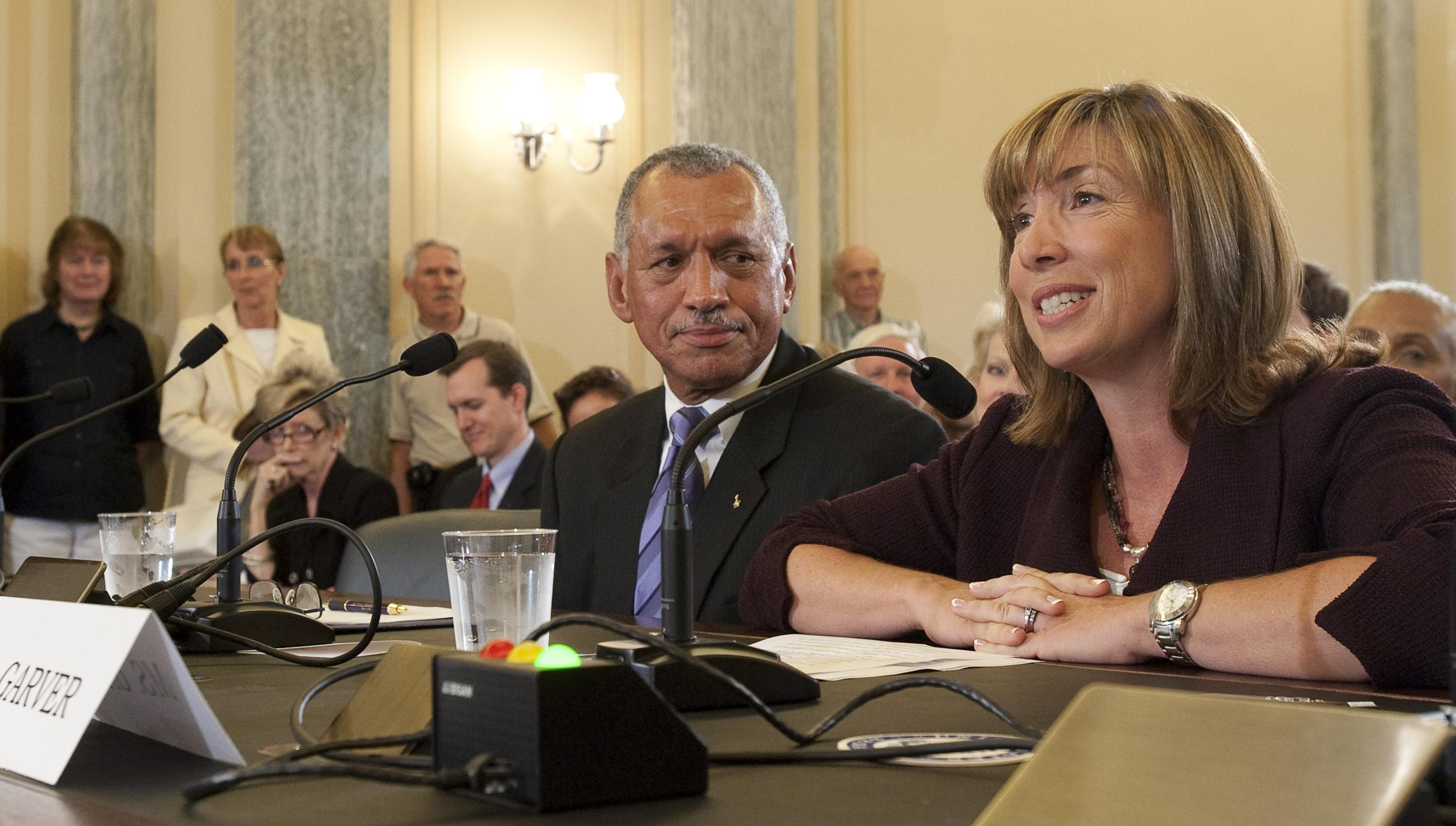 Charles Bolden, nominee for administrator of NASA, left, and Lori Garver, nominee for deputy administrator of NASA, testify at their confirmation hearing before the Senate Commerce, Science and Transportation Committee in the Russell Senate Office Building on Capitol Hill in Washington, Wednesday, July 8, 2009.